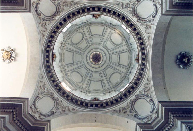 Kraków, dome of church of SS. Peter and Paul